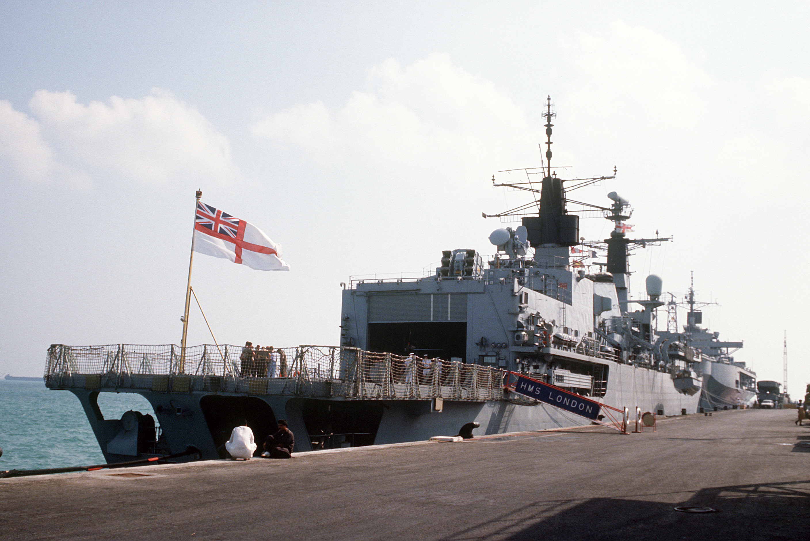 The British frigate HMS LONDON (F-95) stands moored to a pier during Operation Desert Shield.